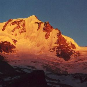 Gran Paradiso by sunset. Photo taken with a Canon Ixus II by Ringo Massa